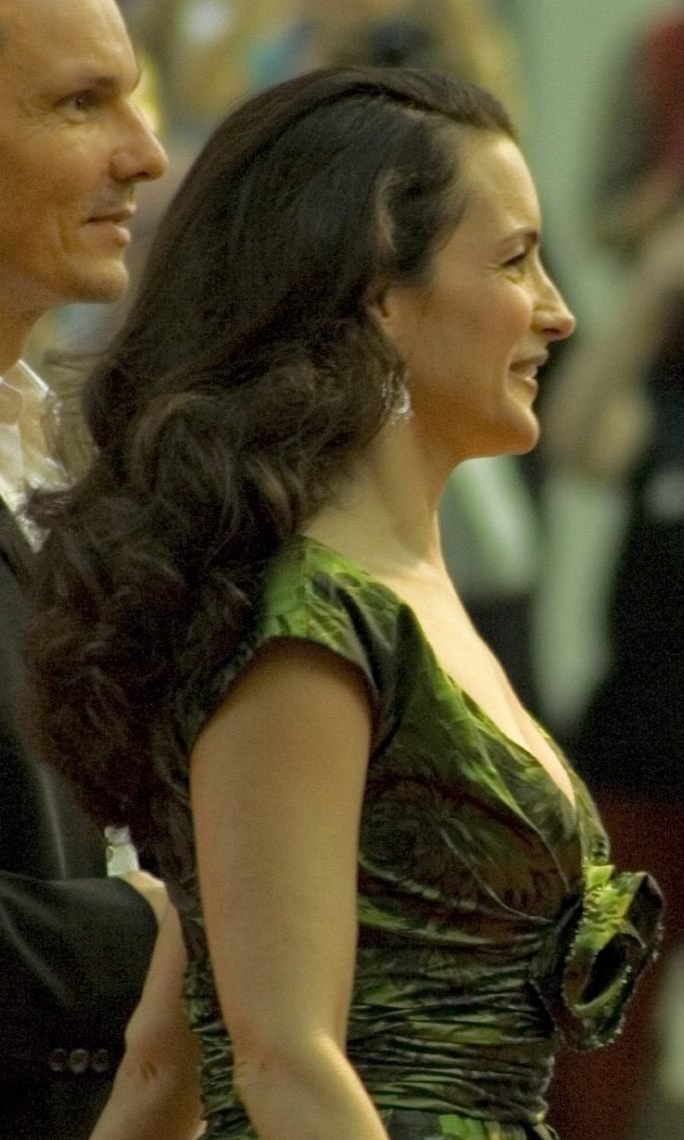 Kristin Davis aka Charlotte York at the premiere of "Sex and the City: the Movie" in Berlin